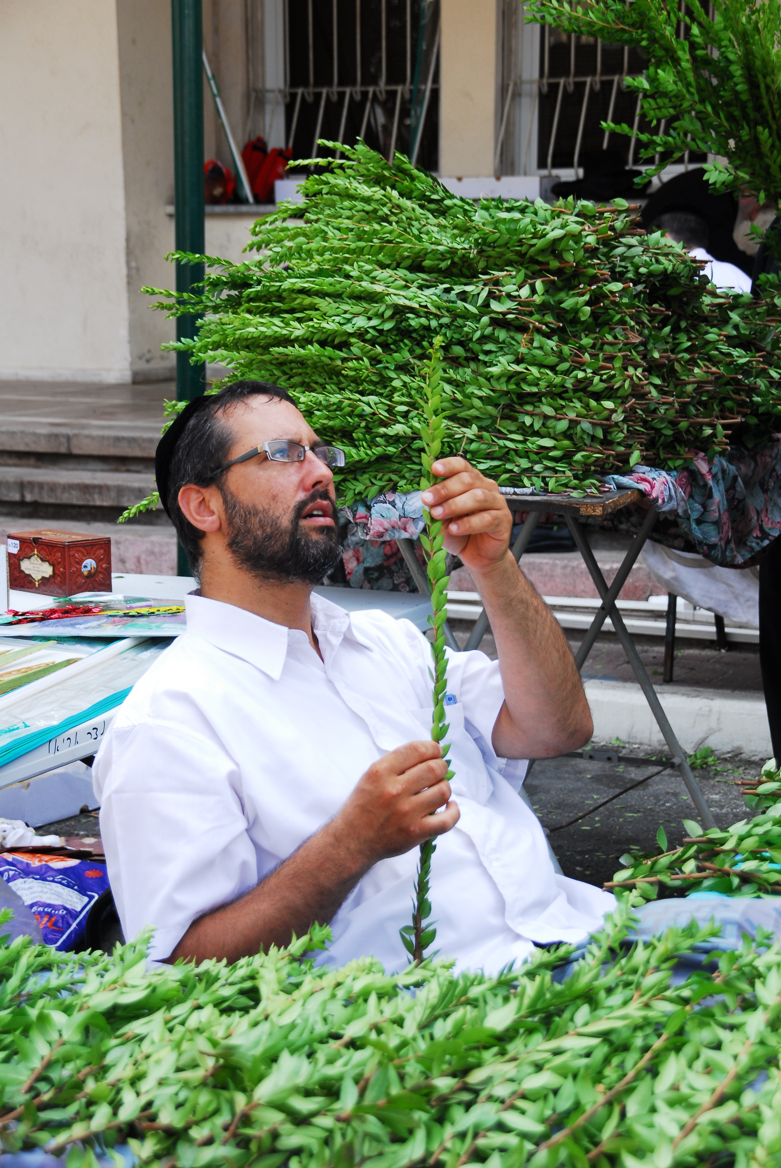 Religion in Israel